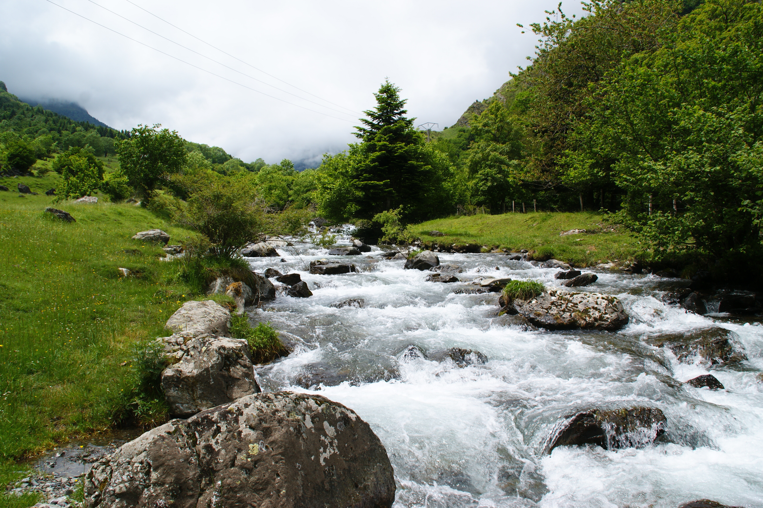 Gave de (River) Labat de Bun in the valley below the Lac d'Estaing in the Hautes-Pyrénées.